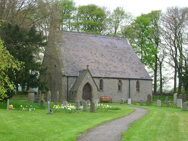 Parish church of St Michael and All Angels, Sheldon, Derbyshire, seen from the southwest